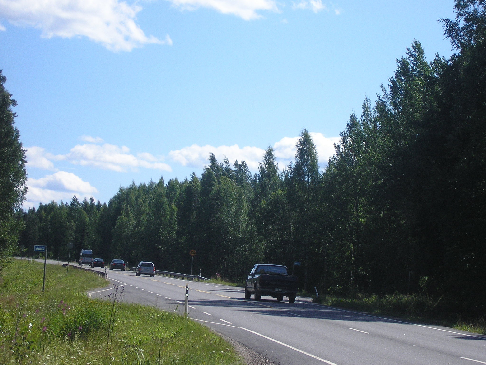 Main road 66 in Virrat, Finland, near Toriseva ravine lakes.